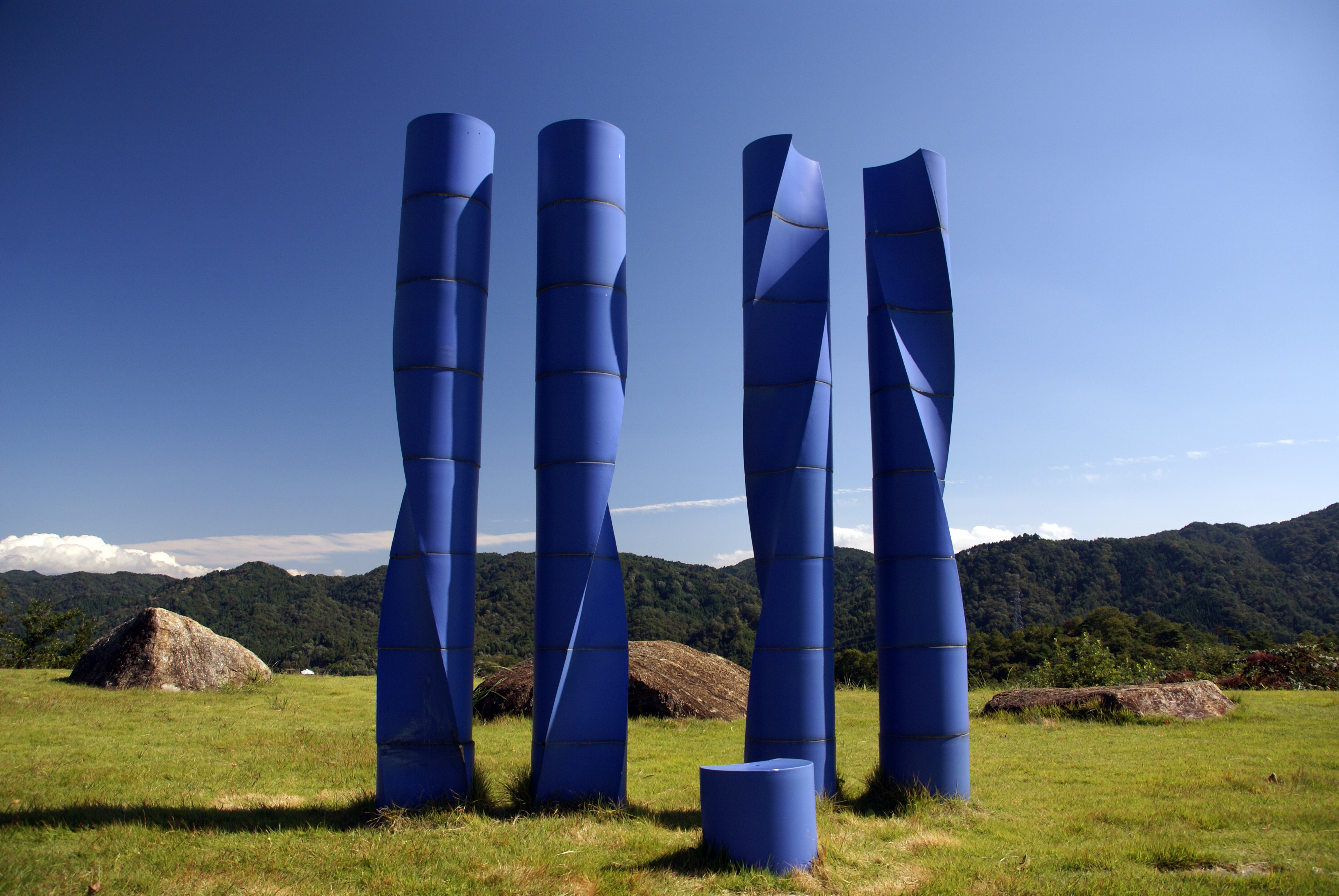 Shigaraki Ceramic Cultural Park in Koka, Shiga prefecture, Japan